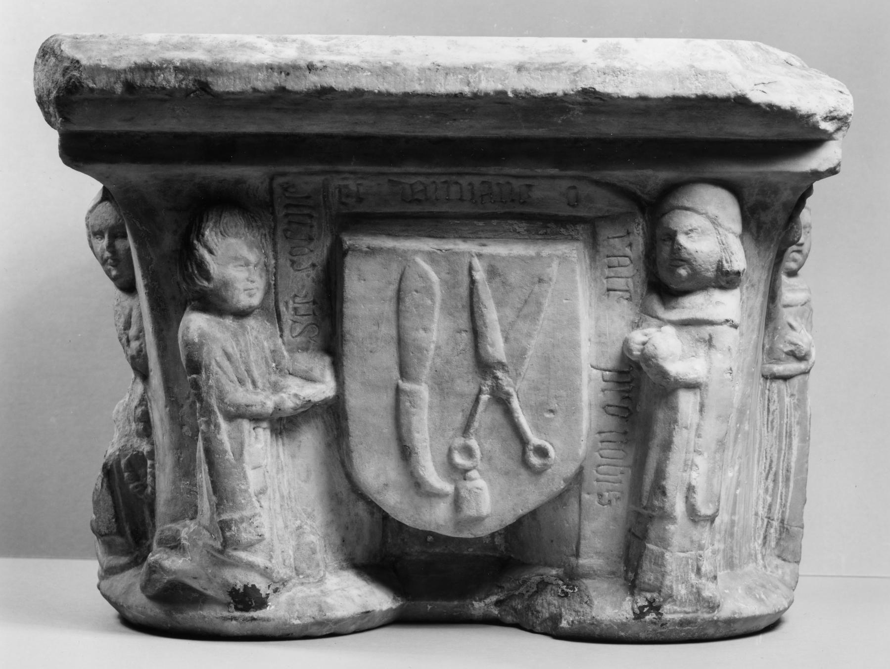 Guilds of various natures often sponsored artworks. In this late fifteenth-century capital from a monastery in Gascony (France), the arms of the guild of barber-surgeons is prominently displayed. The coat of arms depicts the tools of the trade (scalpel and scissors) and is flanked by two famous doctor saints from Antiquity: Cosmas and Damian. The inscription reads, "Saints Cosmas and Damian pray for us." Another doctor holding a flask up to the light is pictured on the right; on the back, two medical saints (possibly Gervasius and Protasius) complete the decoration.